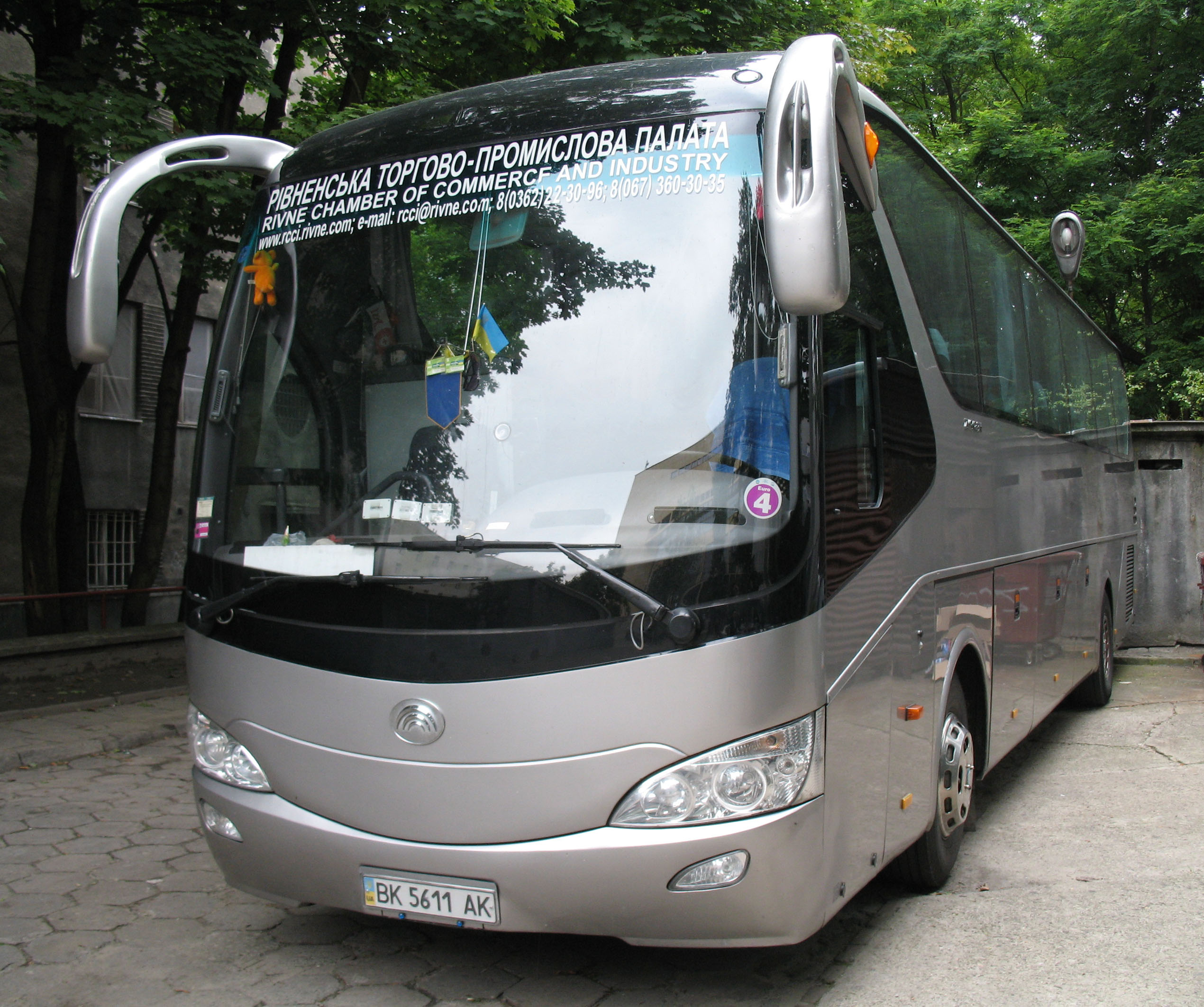 Yutong ZK6129H coach from Ukraine in Kraków, Poland.